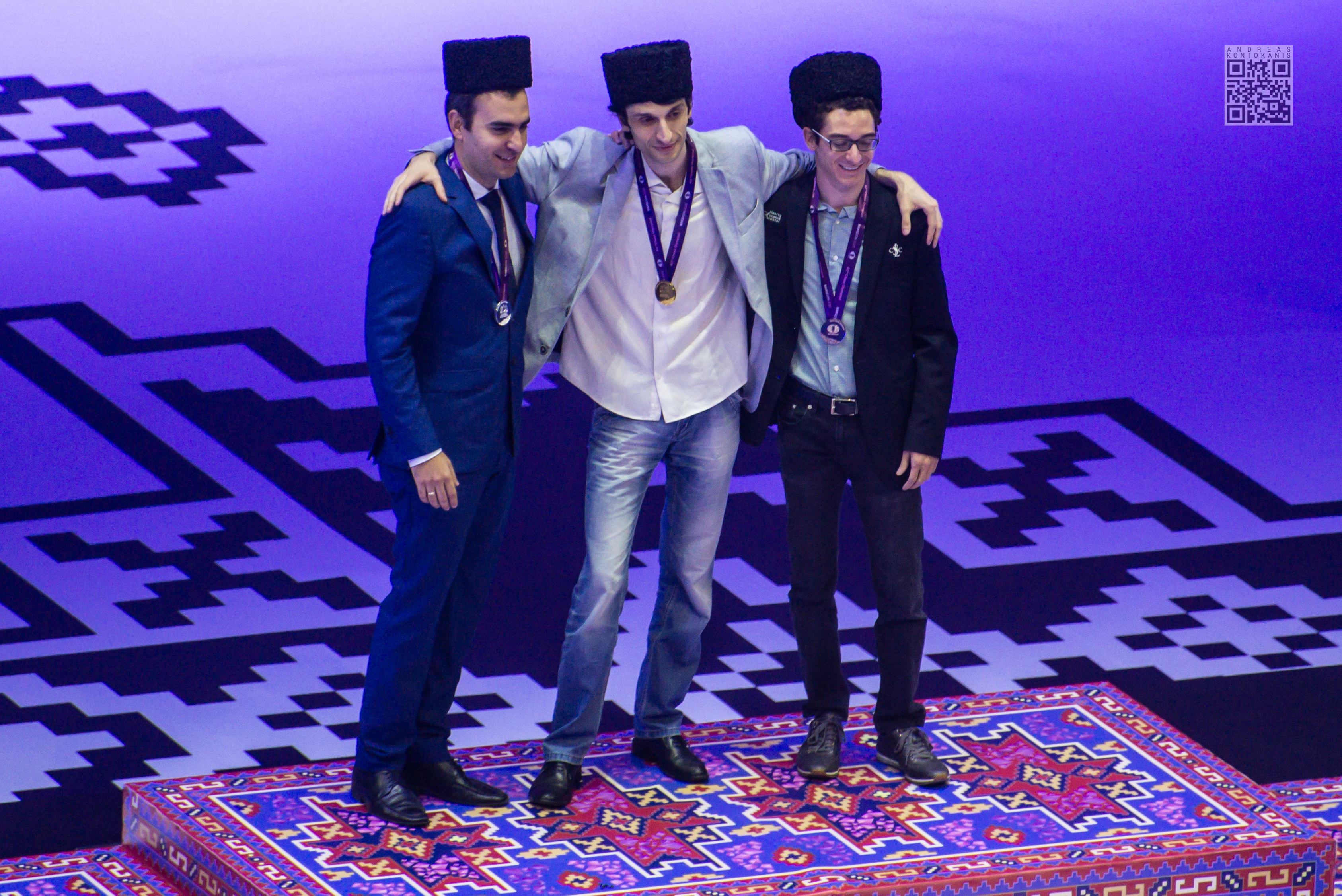 1st board medalists